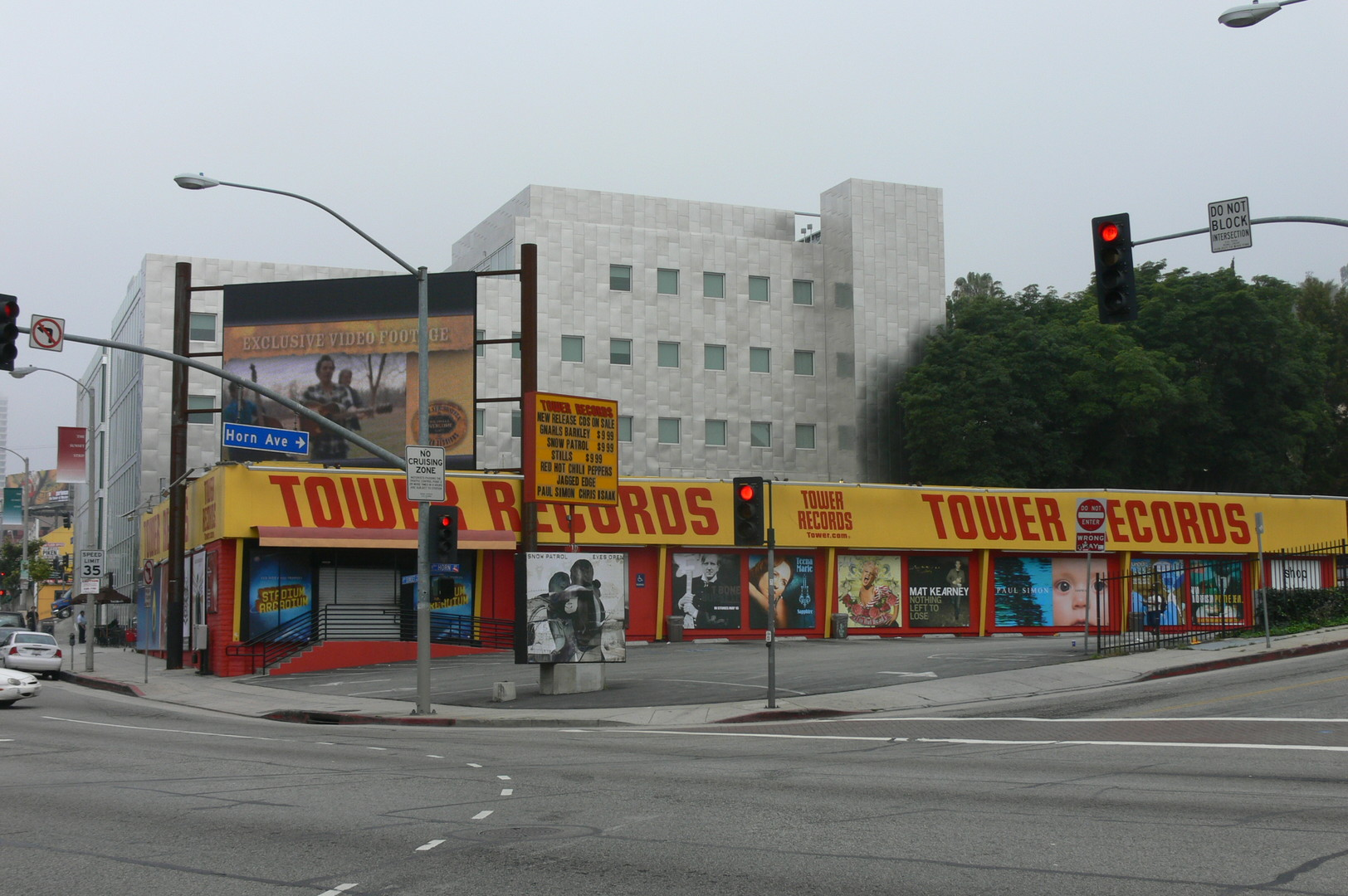 Tower Records Sunset, 8801 West Sunset Blvd., West Hollywood, California. The metallic building behind Tower (8833 Sunset) houses a number of IAC/InterActiveCorp subsidiaries including Citysearch, Evite, and . This location was closed in December 2006. Photograph by Mike Dillon, May 10, 2006.